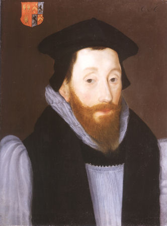 Portrait of George Lloyd, bishop of Chester (1604—15)